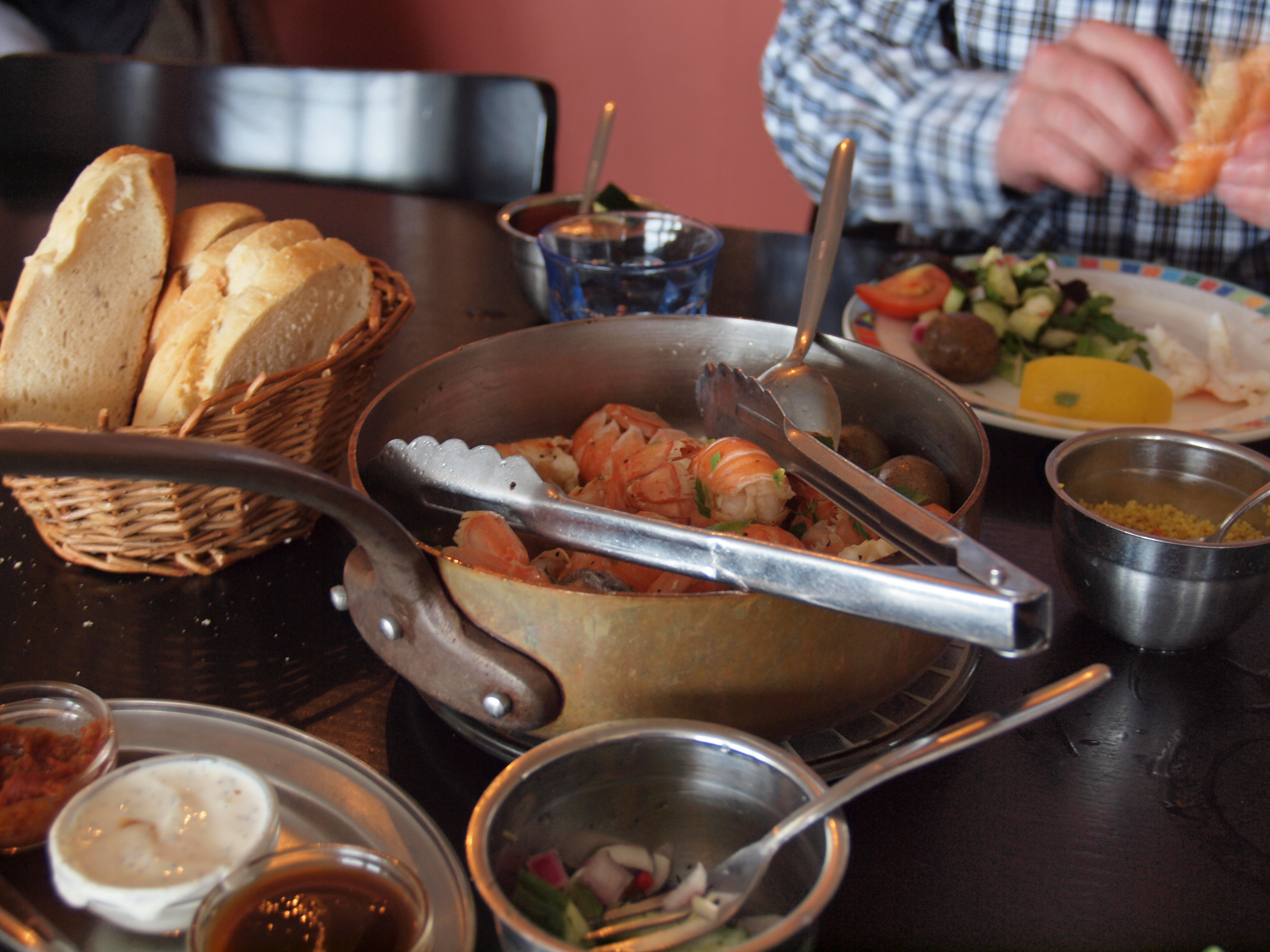 A restaurant dish consisting of Icelandic lobster with potatoes, various vegetables and dip sauces in restaurant Fjöruborðið, Stokkseyri, Iceland.